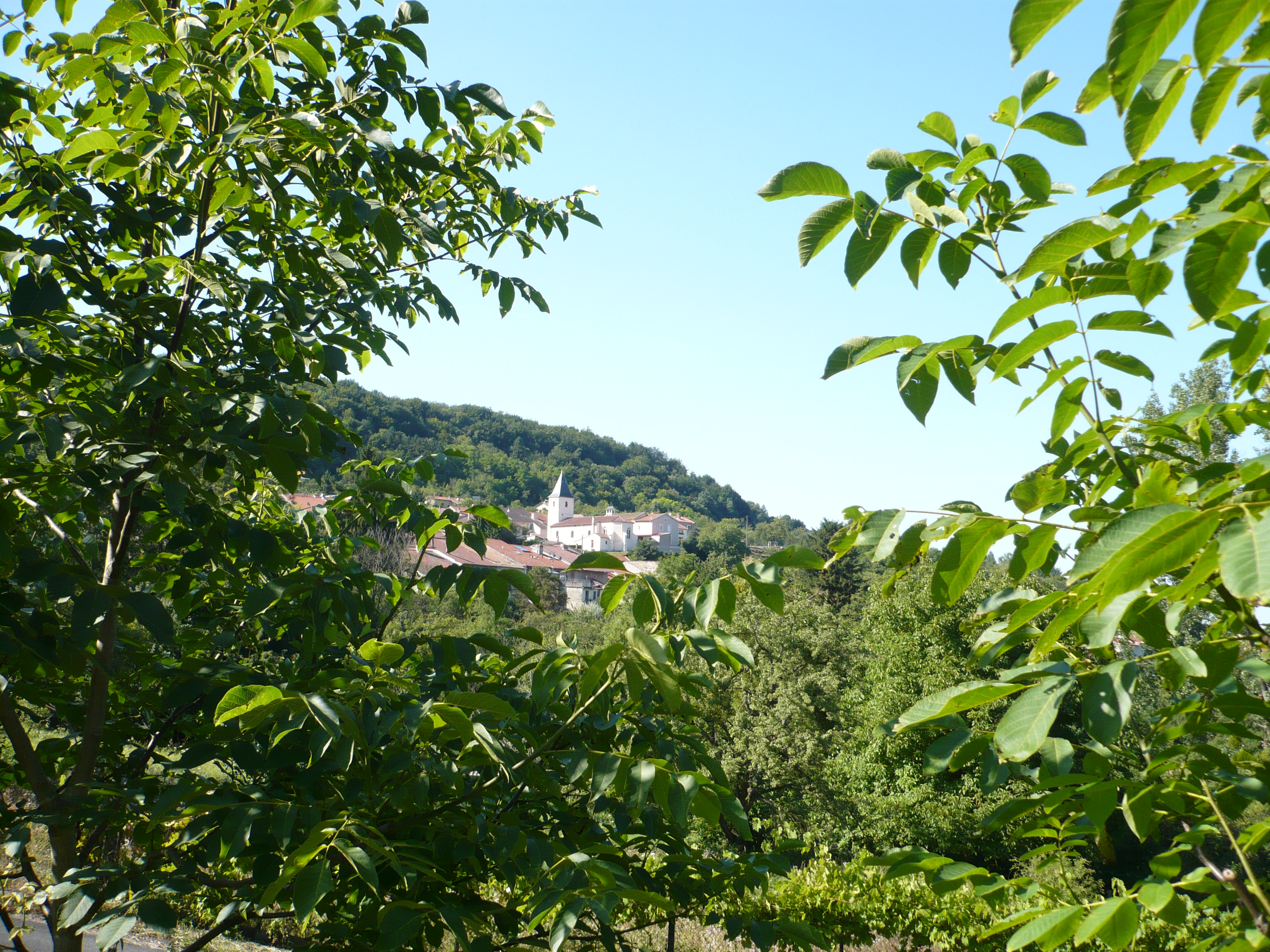 The village of Charmes-la-Cote, in France.